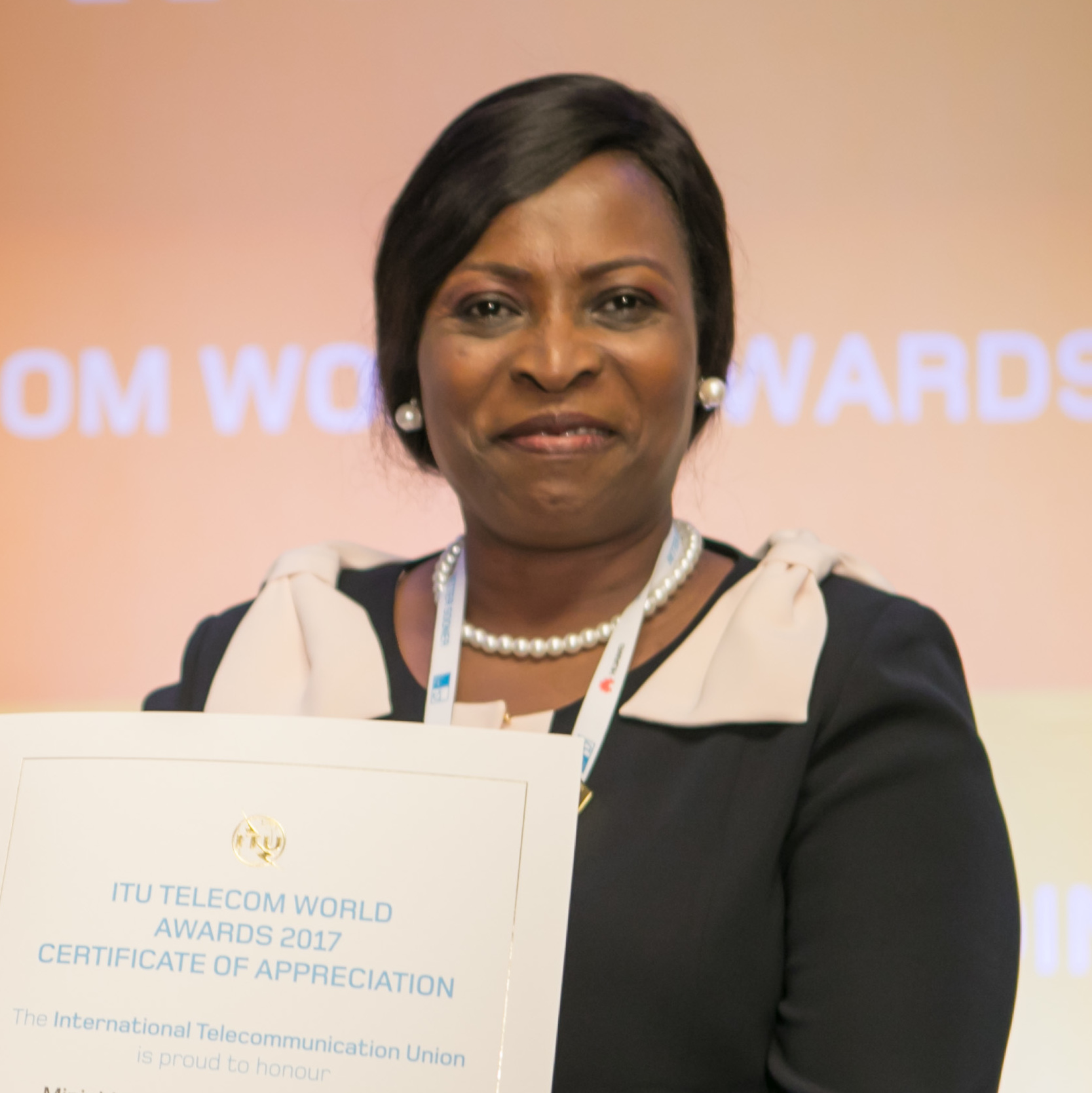 From left to right, Houlin Zhao, Secretary General, International Telecommunication Union, Switzerland; Mrs Rafiatou MONROU, Minister, Ministere de l'Economie Numerique et de la Communications, Benin ©ITU/R.Farrell